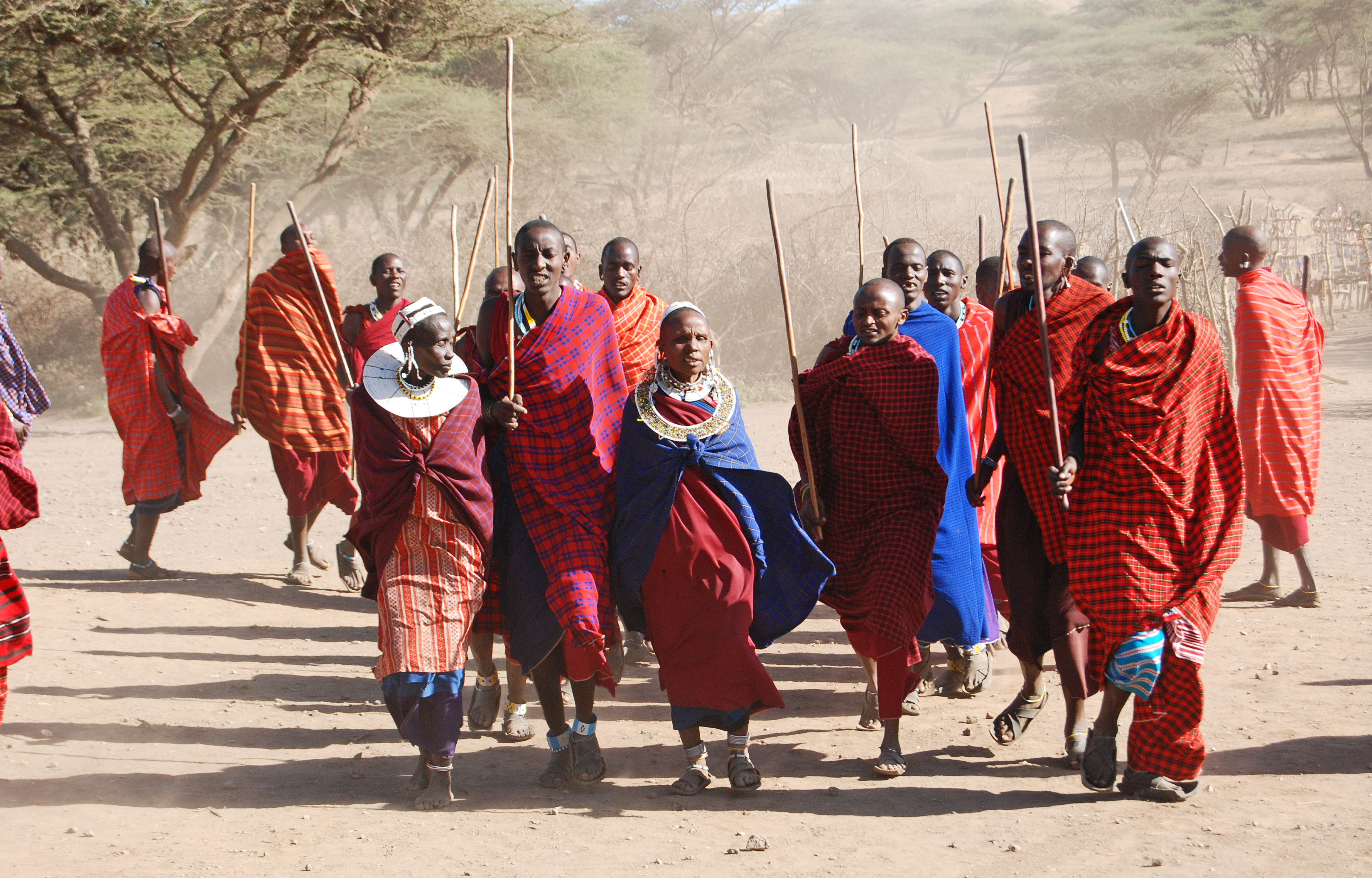 Traditional Dance welcoming us into a Ngorongoro Maasai Village / The Maasai are a Nilotic [Nile Valley] ethnic group of semi-nomadic people located in Kenya and northern Tanzania